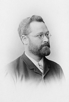 The linguist and philologist Eduard Sievers. Photo taken around 1900.